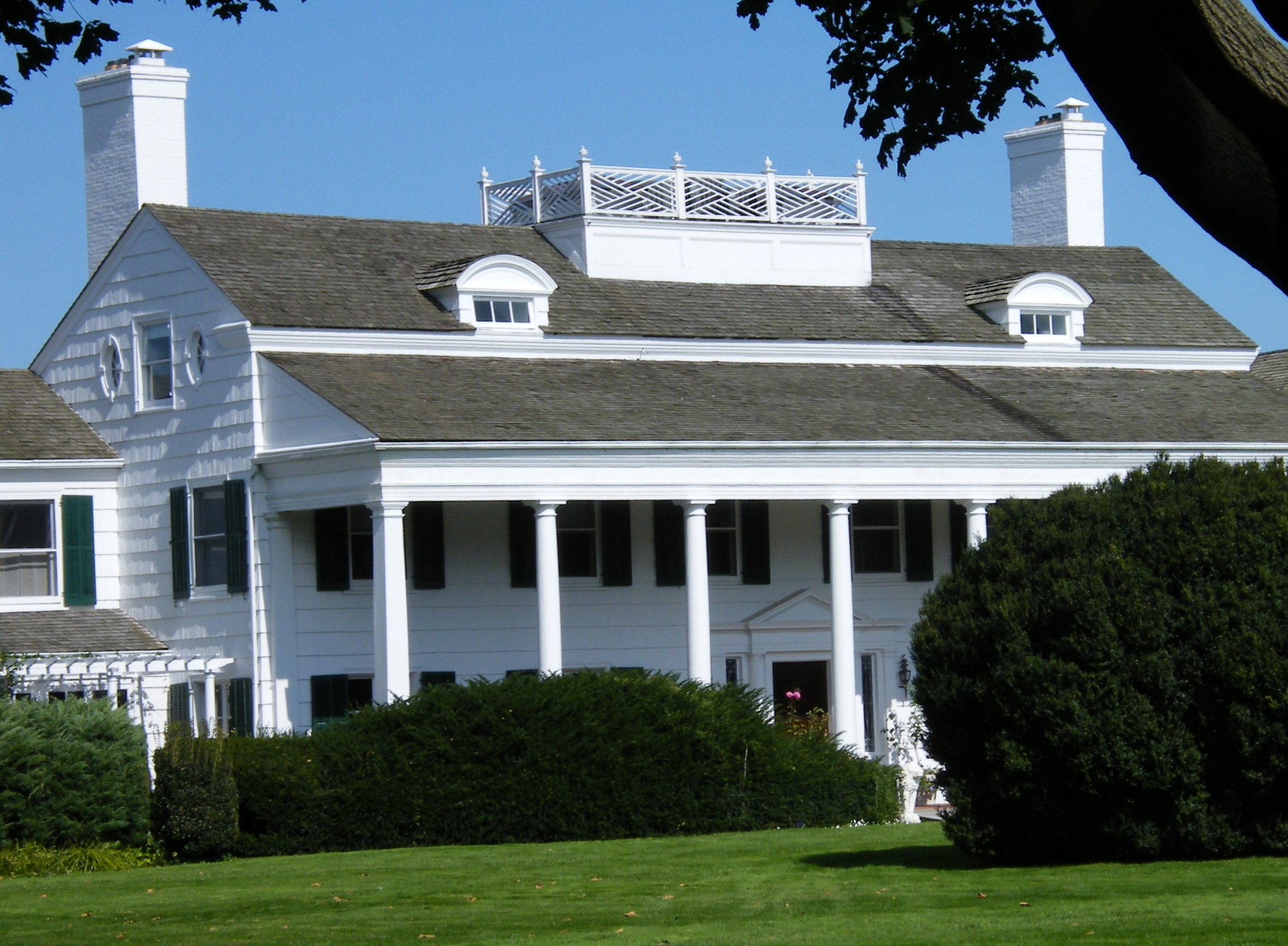 155 Hill Road